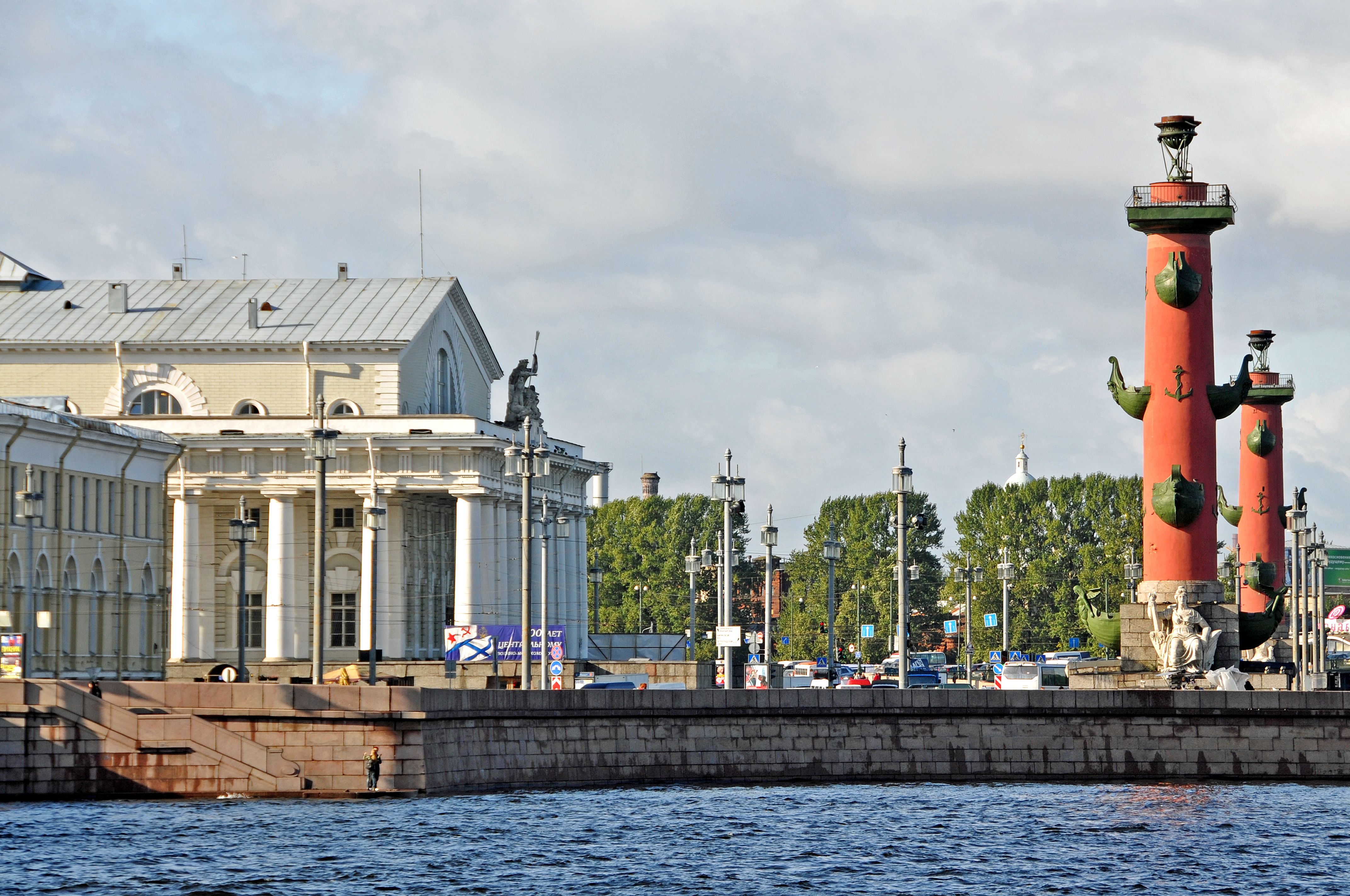 Two rostral columns sit on a granite bases and are constructed of brick coated with a terra cotta red stucco and decorated with bronze anchors and four pairs of bronze ship prows. Seated marble figures decorate the base of each column each representing the major rivers of Russia, Volga and Dnieper at the northern column, Neva and Volkhov at the southern one. They originally served as beacons and originally were topped by a light in the form of a Greek brazier and lit by oil. The building on the left is the Stock Exchange.